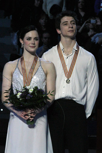 Tessa Virtue and Scott Moir at the 2010 World Figure Skating Championships.